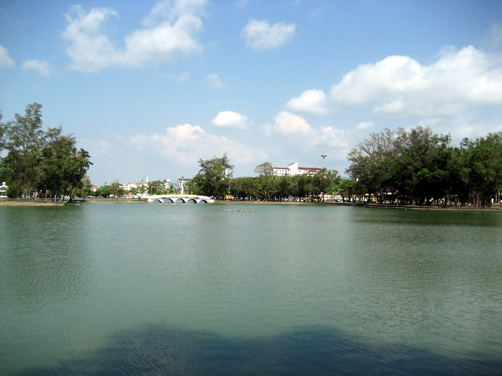 A view over Chanthaburi City's central park, Thung Na Choei, Thailand.